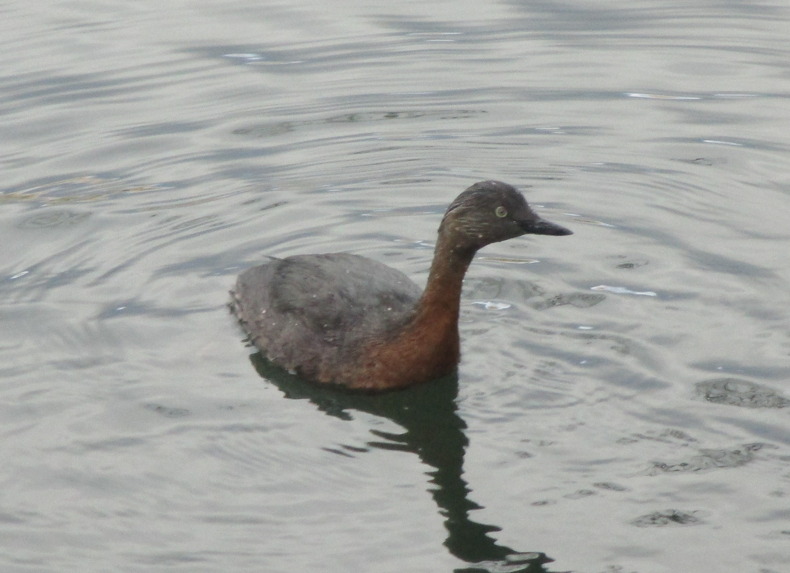 Weweia (New Zealand Dabchick), photographed at Western Springs in Auckland.